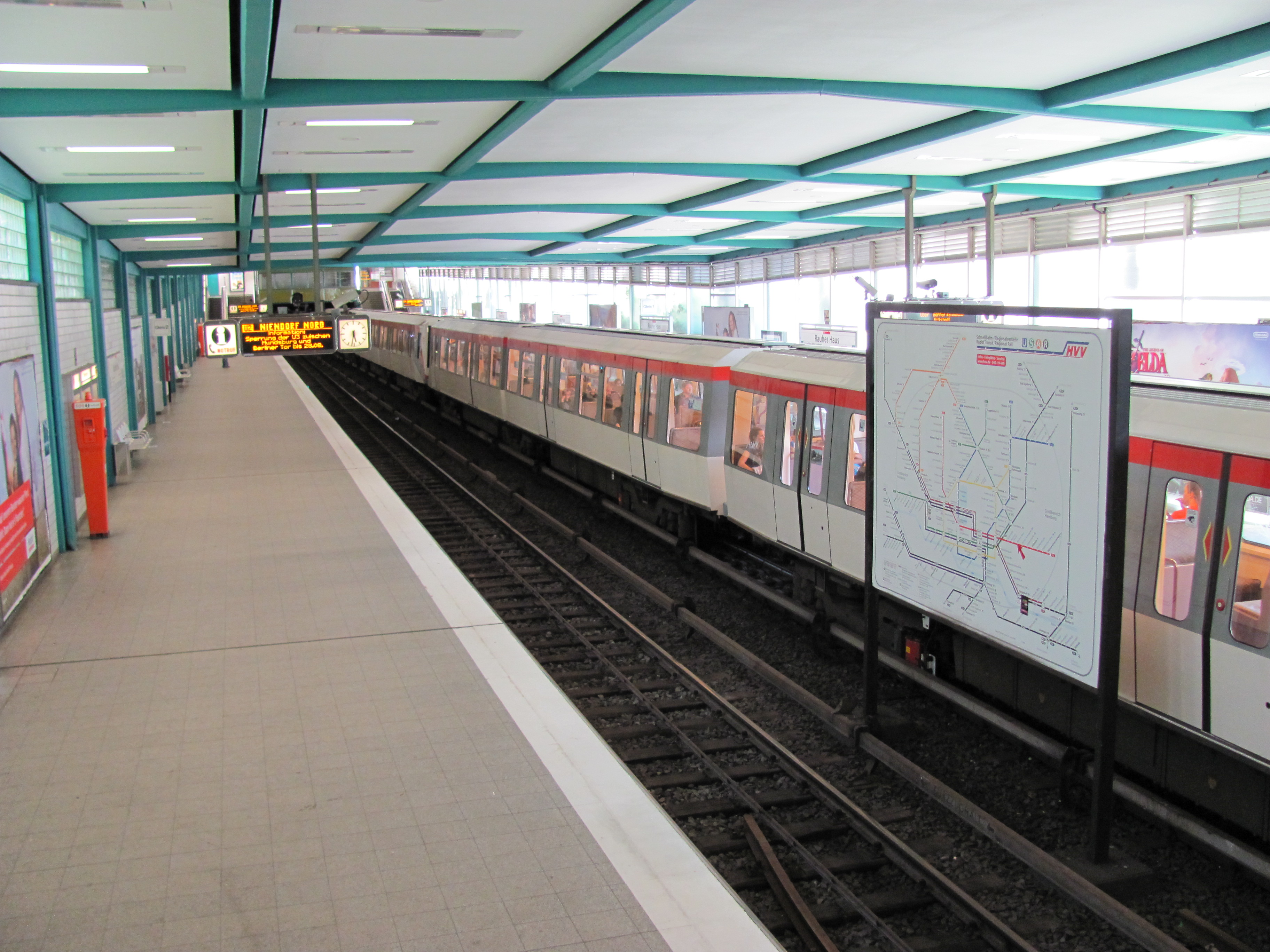 U-Bahn station Rauhes Haus in Hamburg, Germany